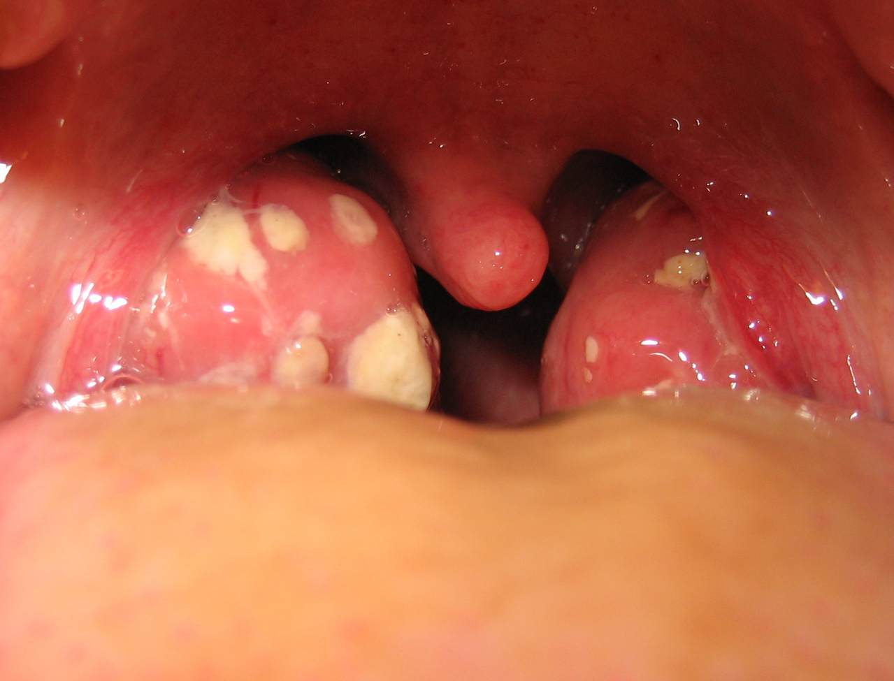 Taken by me, no usage restrictions. Image for tonsillitis page which does not have a photo yet.